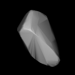 3D convex shape model of 807 Ceraskia, computed using light curve inversion techniques. J. Hanuš, J. Ďurech, M. Brož, B. D. Warner (June 2011). "A study of asteroid pole-latitude distribution based on an extended set of shape models derived by the lightcurve inversion method". Astronomy and Astrophysics 530: A134. ISSN 0004-6361. arXiv